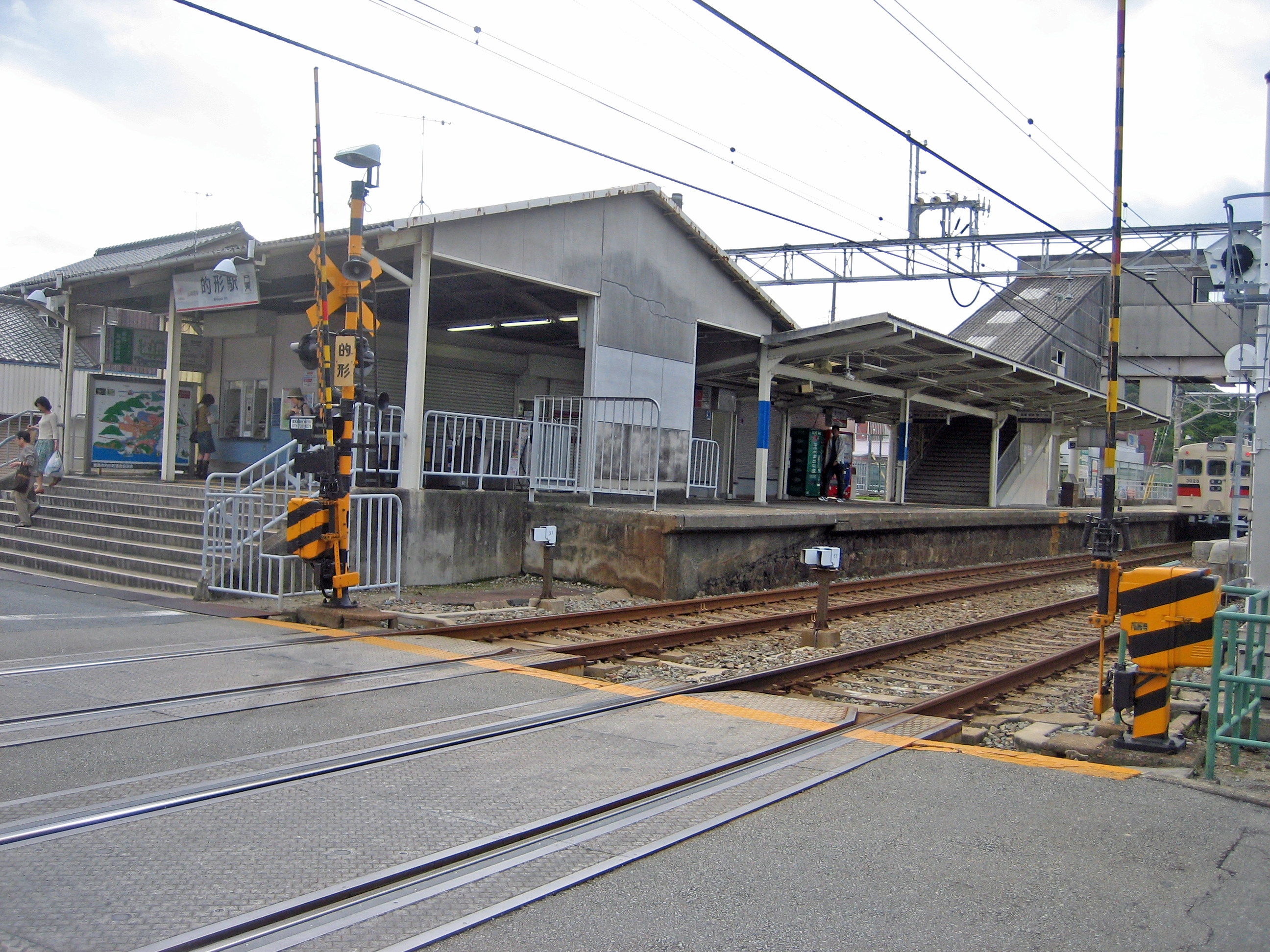 Matogata Station